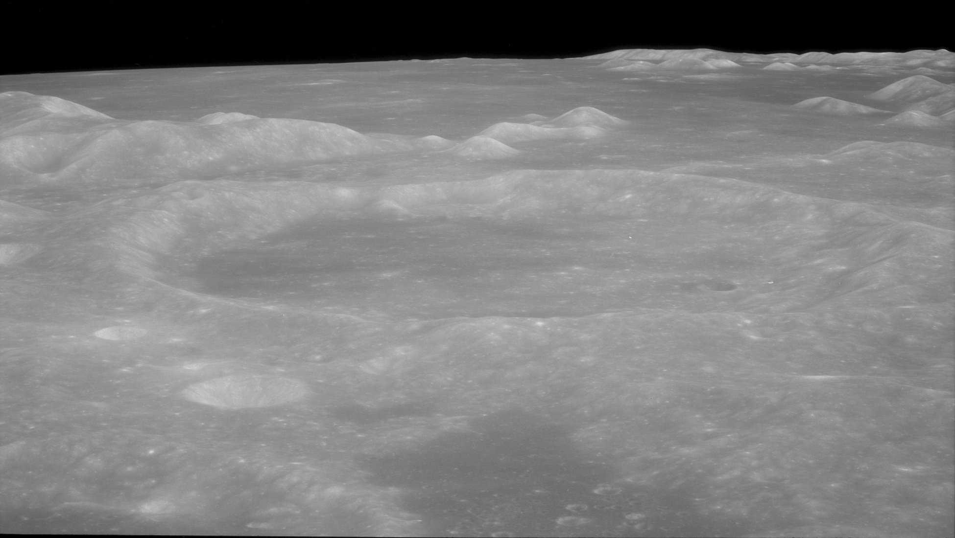 Highly oblique view of Condorcet, on the moon. Promontorium Agarum is at left and Mare Crisium is in the background. Facing northwest from approximately 40 km altitude.